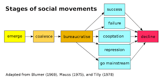 the stages of a social movement in order